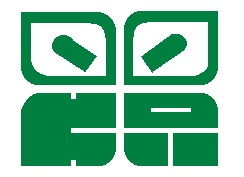 Katashina Gunma chapter